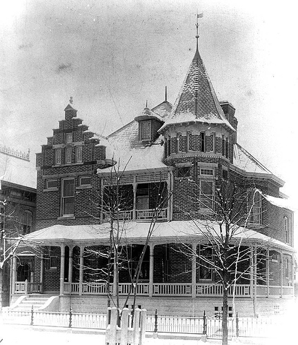 A historic image of the Ruskaup-Ratcliffe House, located at 711 Dorman Street in Indianapolis. Designed in 1892, it is part of the Cottage Home Historic District, which is listed on the National Register of Historic Places.